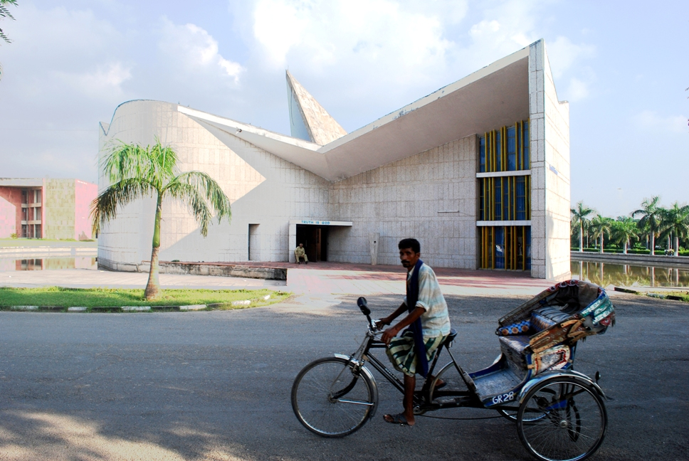 Cycle rickshaw in Chandigarh